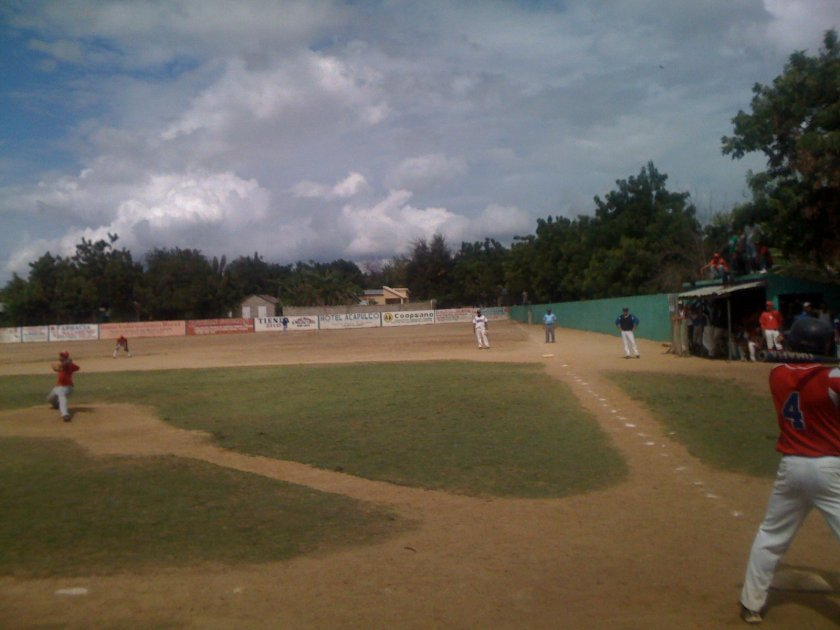 Play Municipal Laguna Salada